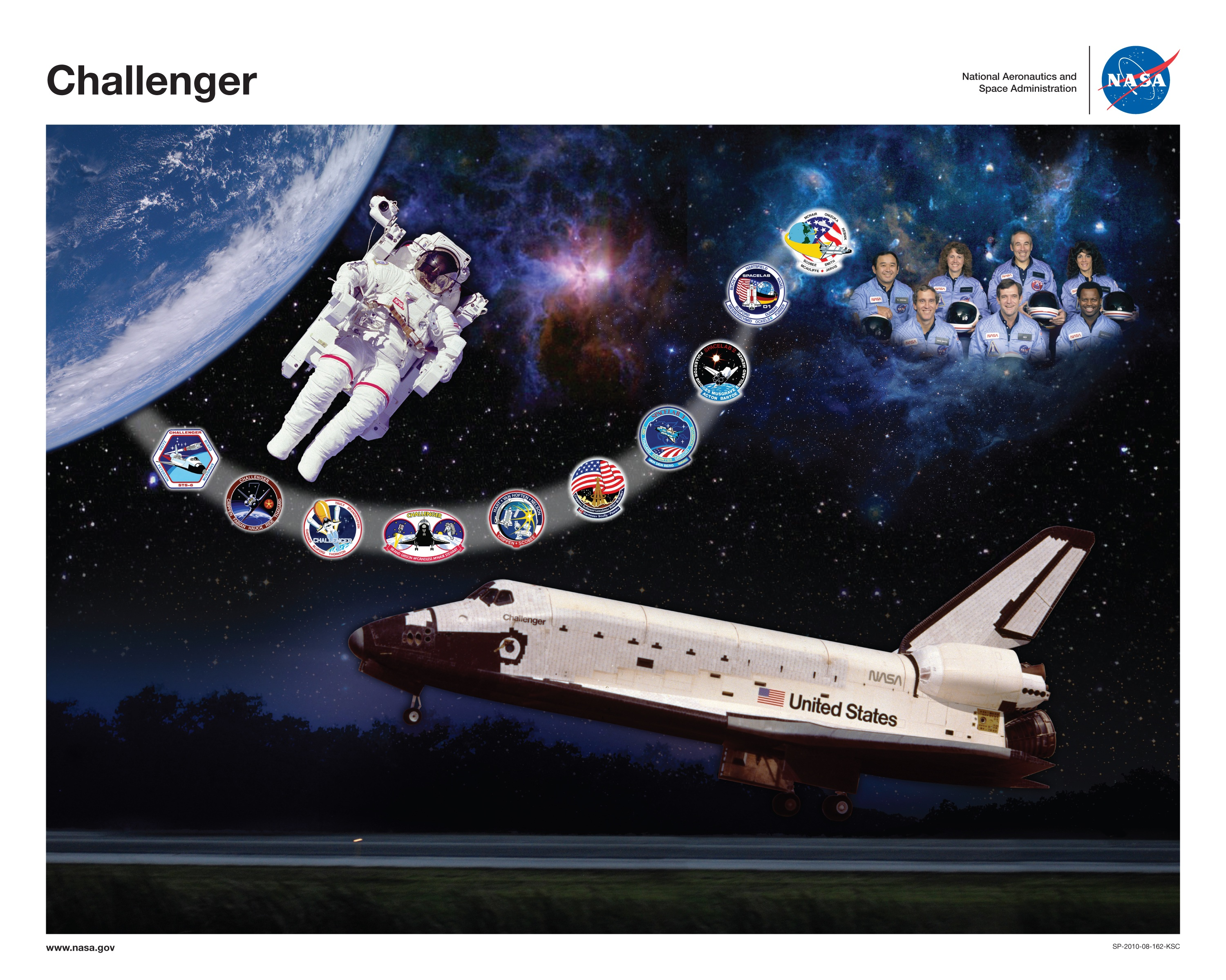 This is a printable version of space shuttle Challenger's orbiter tribute, or OV-099, which hangs in Firing Room 4 of the Launch Control Center at NASA's Kennedy Space Center in Florida. Challenger's accomplishments include the first night launch and first African-American in space, Guion Bluford, on STS-8, the first in-flight capture, repair and redeployment of an orbiting satellite during STS-41C, the first American woman in space, Sally Ride, on STS-7, and the first American woman to walk in space, Kathryn Sullivan, during STS-41G. Challenger is credited with blazing a trail for NASA's other orbiters with the first night landing at Edwards Air Force Base in California on STS-8 and the first landing at Kennedy on STS-41B. The spacewalker in the tribute represents Challenger’s role in the first spacewalk during STS-6 and the first untethered spacewalk on STS-41B. Crew-designed patches for each of Challenger’s missions lead from Earth toward a remembrance of the STS-51L crew, which was lost 73 seconds after liftoff on Jan. 28, 1986. Five orbiter tributes are on display in the firing room, representing Atlantis, Challenger, Columbia, Endeavour and Discovery. Graphic design credit: NASA/Lynda Brammer. NASA publication number: SP-2010-08-162-KSC